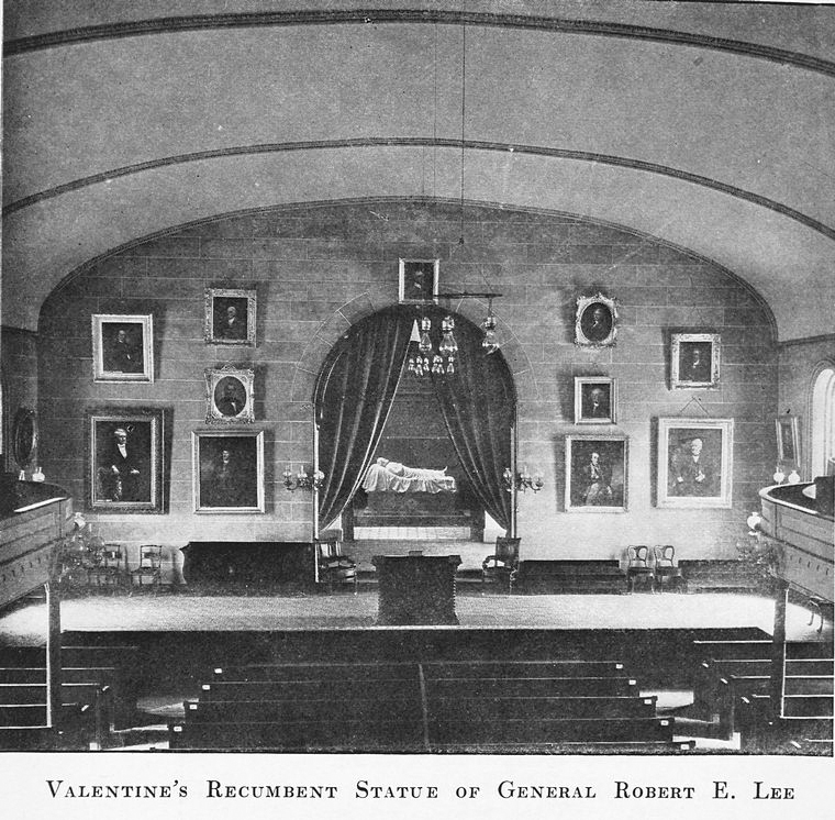 Photographic portrait of recumbent statue of Confederate General Robert E. Lee by sculptor Edward Virginius Valentine at Washington and Lee University at Lexington, Virginia. Courtesy of the New York Public Library Digital Collection.